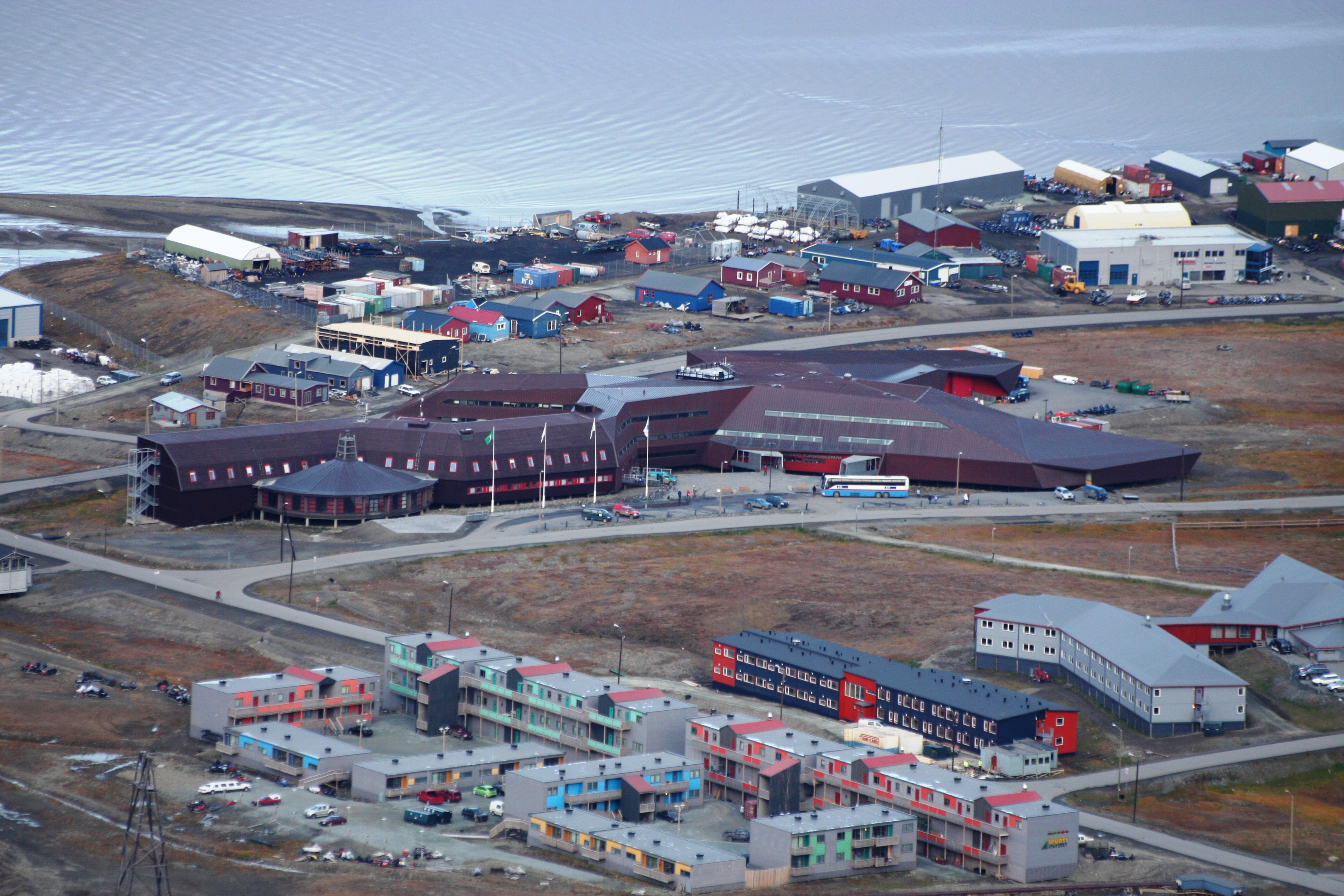 View from Sverdrupkammen towards Longyearbyen, Svalbard